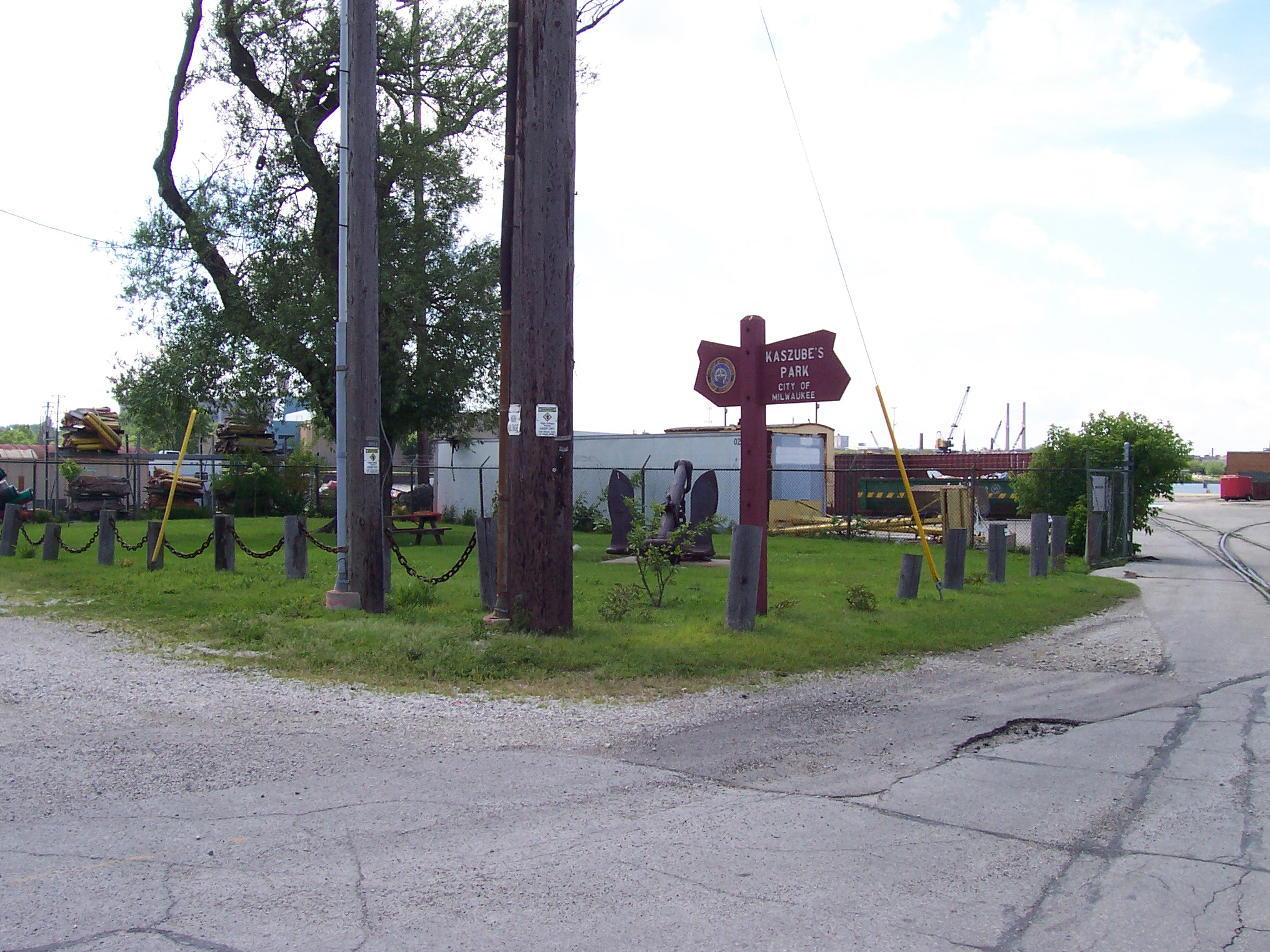 I took this picture in 2004.